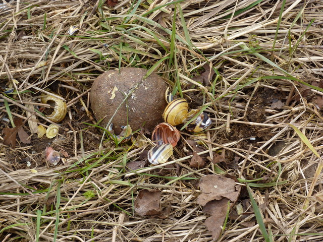 The anvil stone of a thrush The beautifully coloured shells of snails which have been eaten by a thrush,which first bashes the shells against a stone.